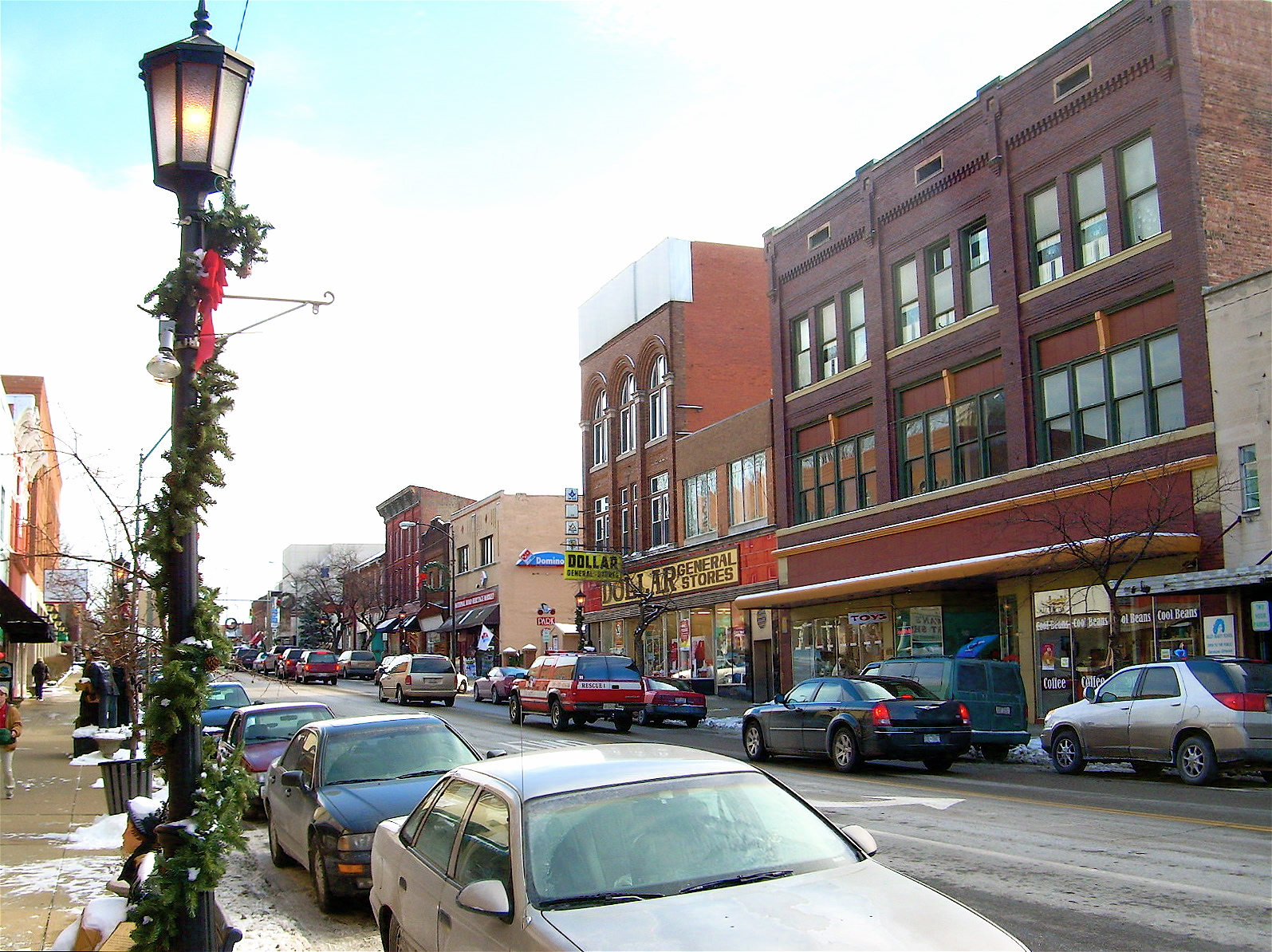 Willjay, taken by me. Downtown Cambridge Ohio in 2008.